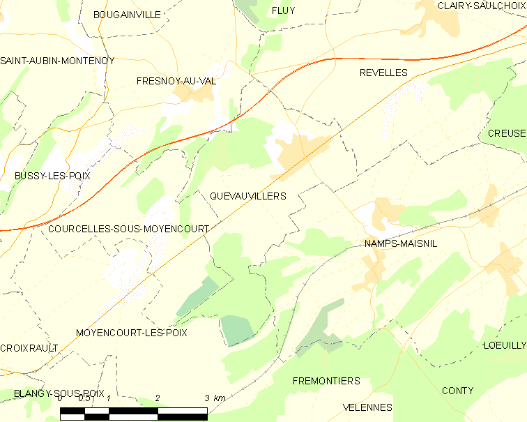 Map of French municipality Quevauvillers